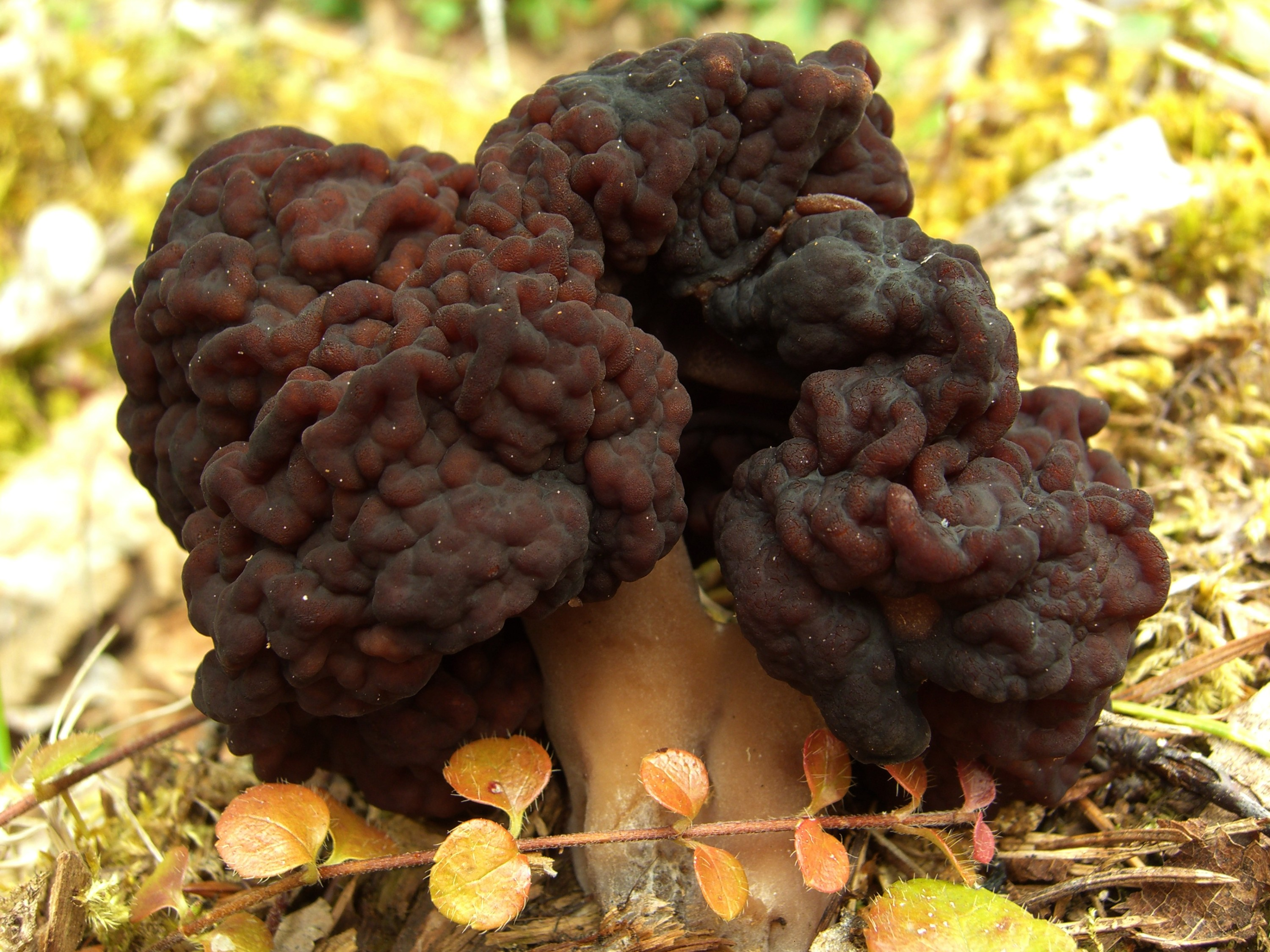 Scientific Name: Gyromitra esculenta (Pers.) Fr. Common Name: False Morel Certainty: pretty sure (notes) Location: Canadian Rockies; Wells Gray Provincial Park; Edgewood Blue Wow, these just sprang up overnight all over the place. But not a morel to be seen...